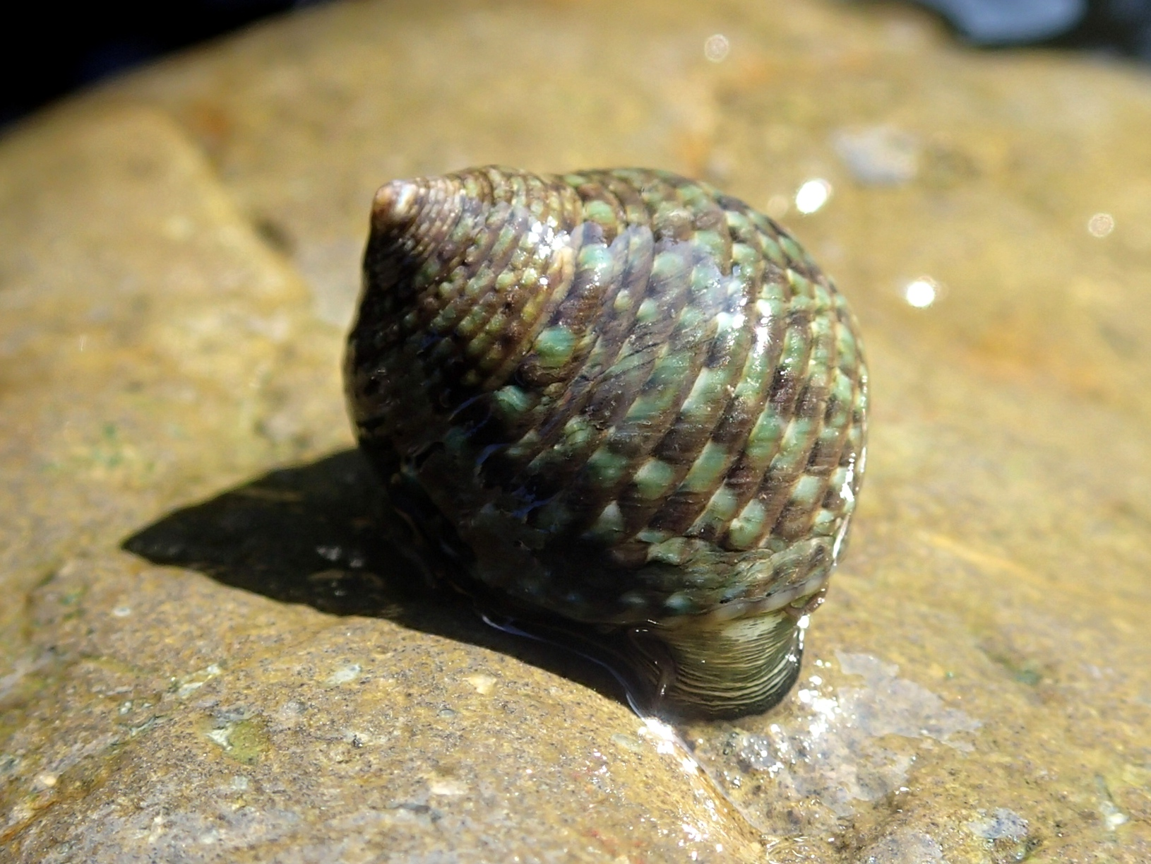 Monodonta sp. (Monodonta australis auct. non Lamarck, 1822) from Chichijima Island, the Ogasawara Islands, Tokyo, Japan.